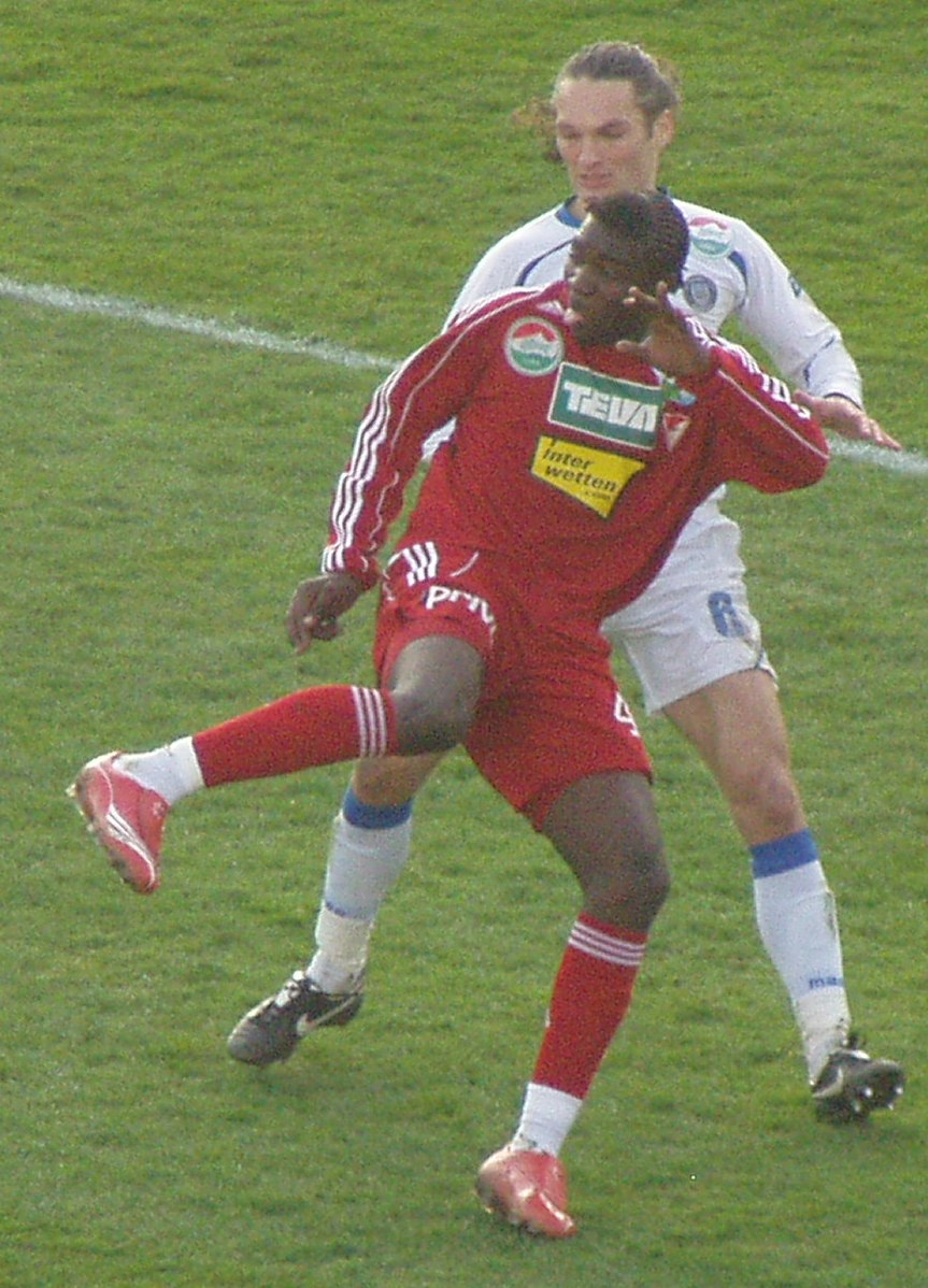 Dorge Kouemaha football player